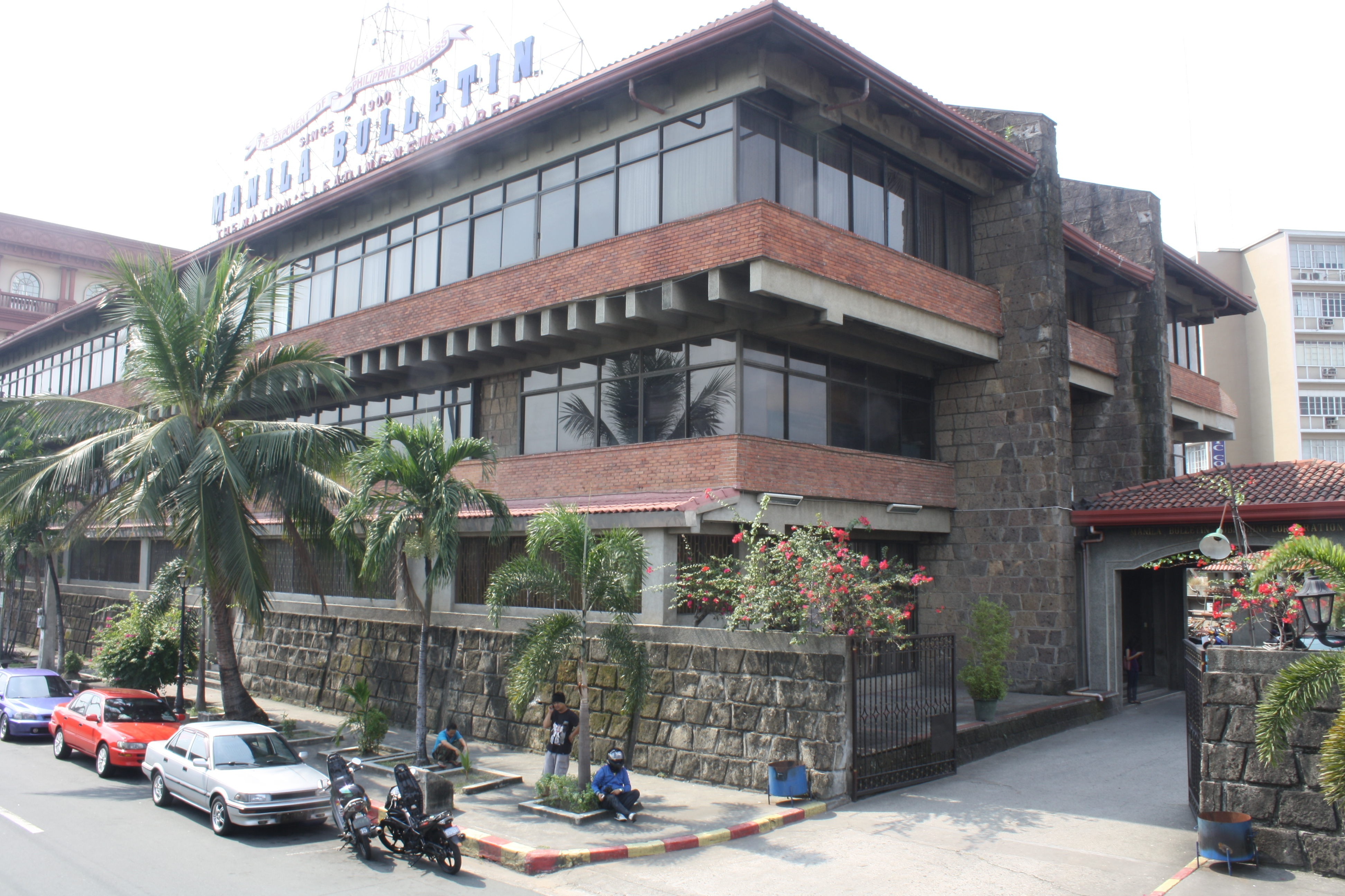 Offices of the Manila Bulletin in Manila, Philippines